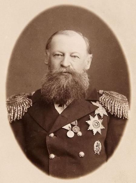 Russian vitse-admiral Alexey Alekseyevich Peshchurov